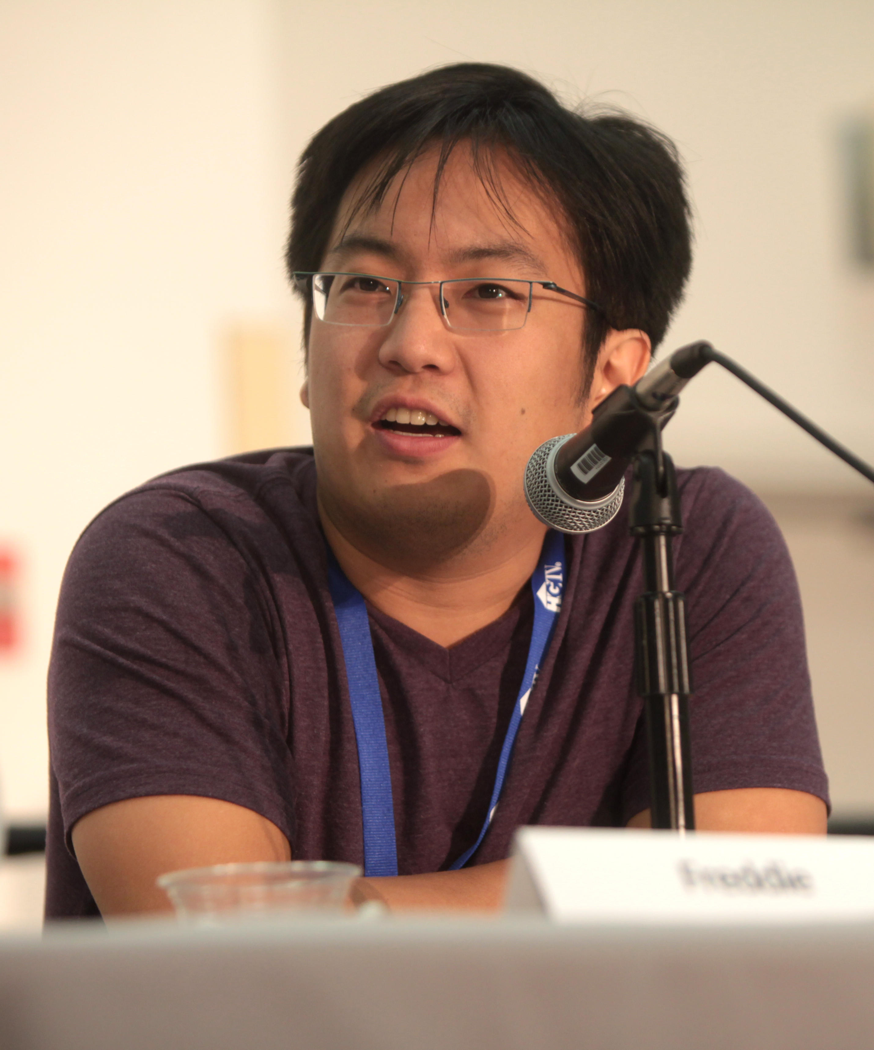 Freddie Wong speaking at the 2014 VidCon at the Anaheim Convention Center in Anaheim, California.